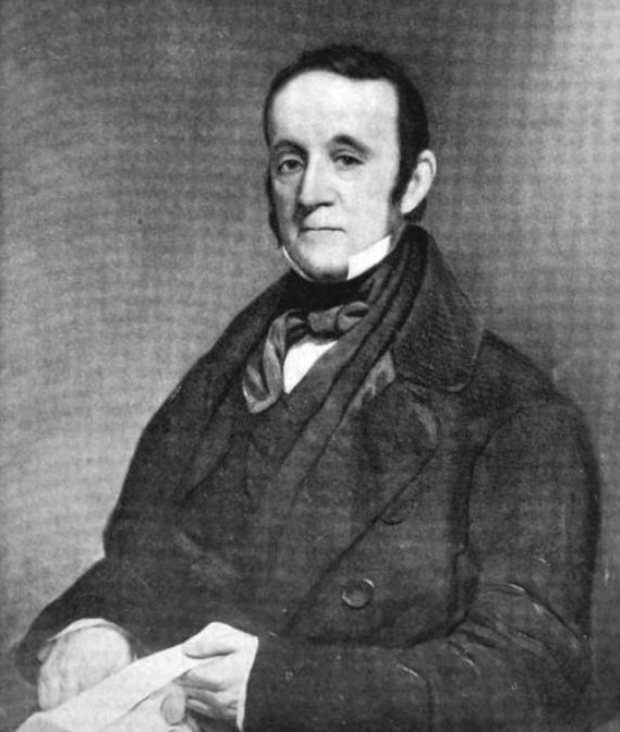 Чӑвашла: Joseph Trumbull, Connecticut Governor